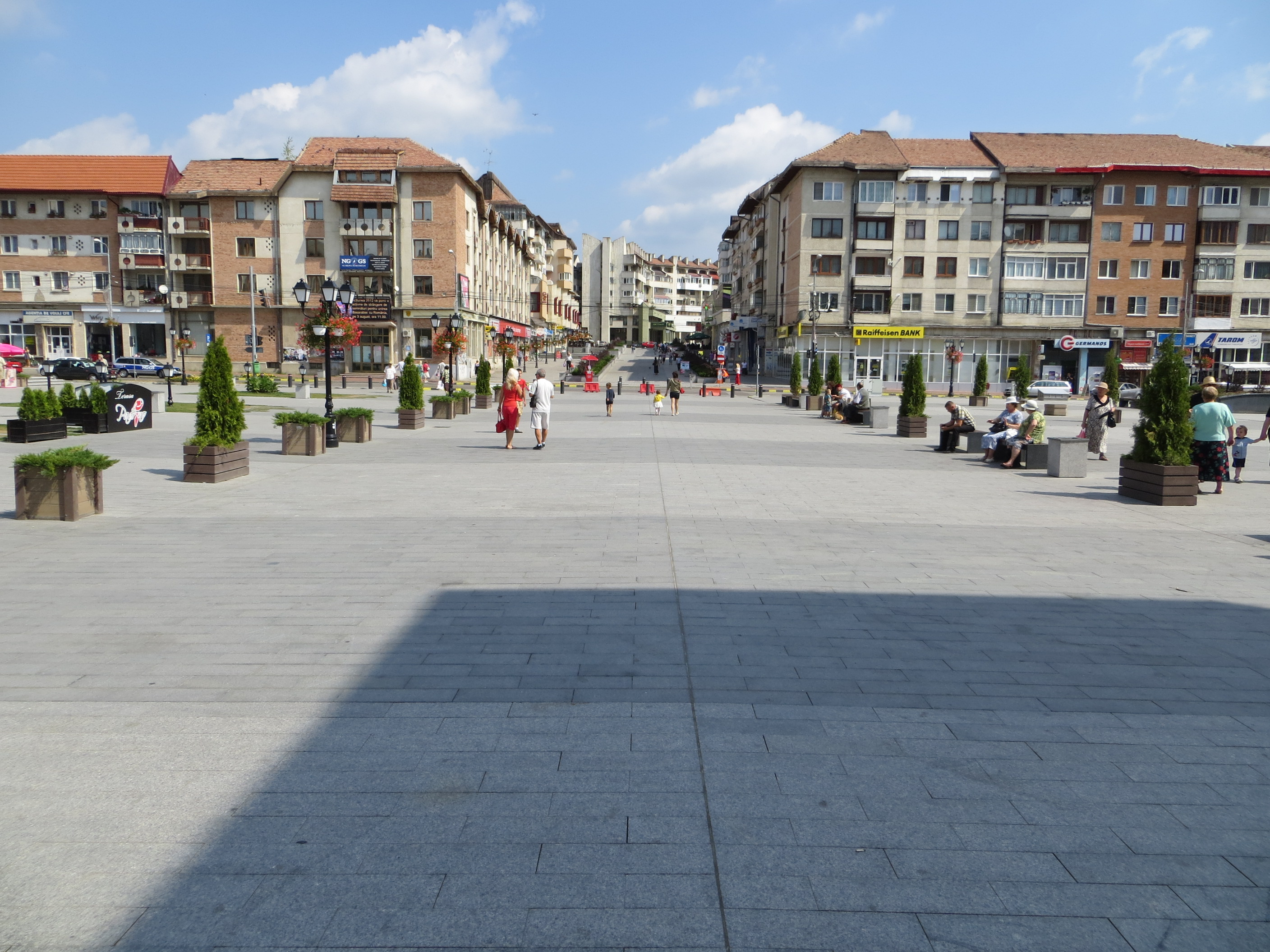 22 Decembrie Square in Suceava.